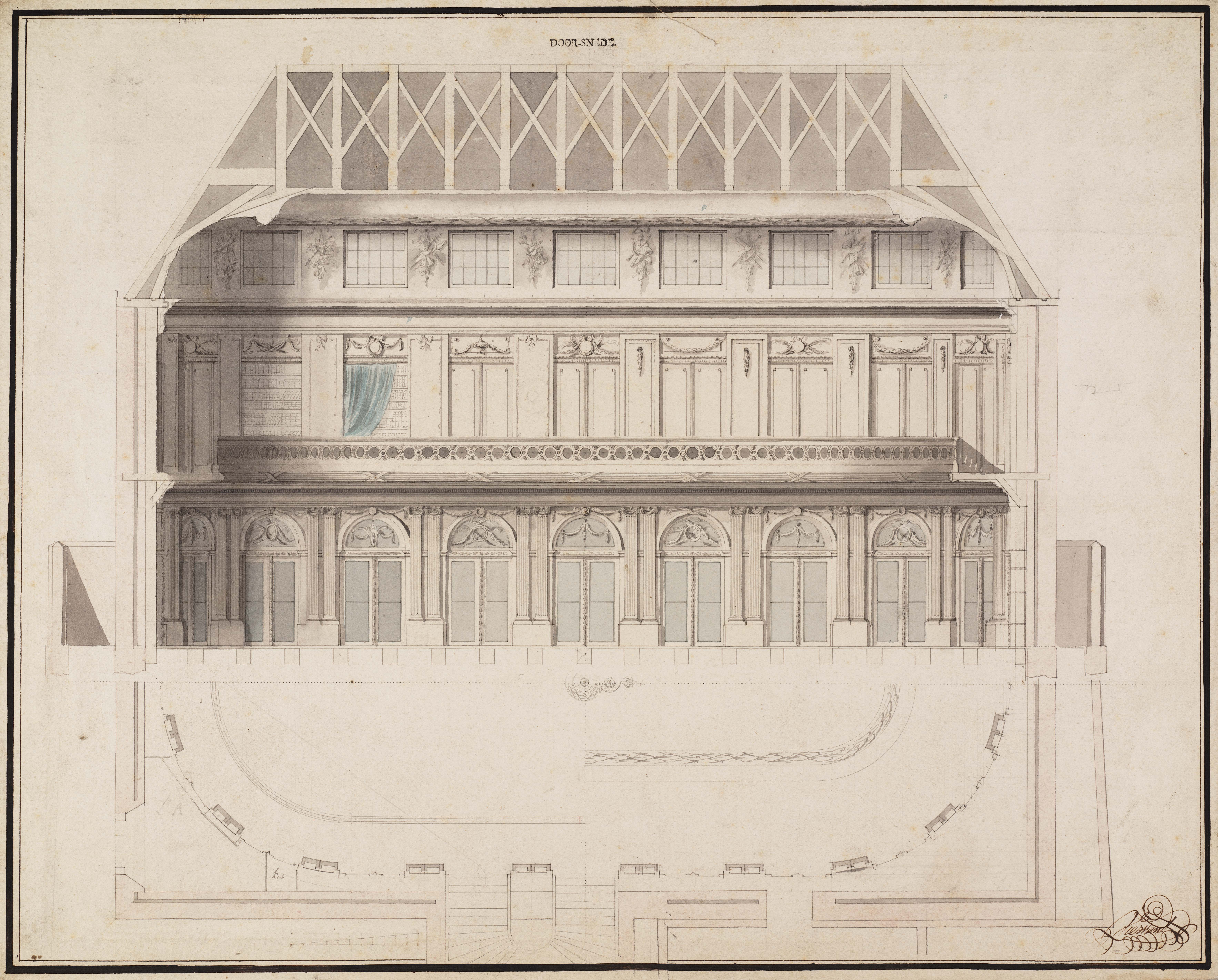 Leendert Viervant, Design for the Oval Room of Teylers Museum; 480 x 600 mm. Collection Teylers Museum, Haarlem, the Netherlands.